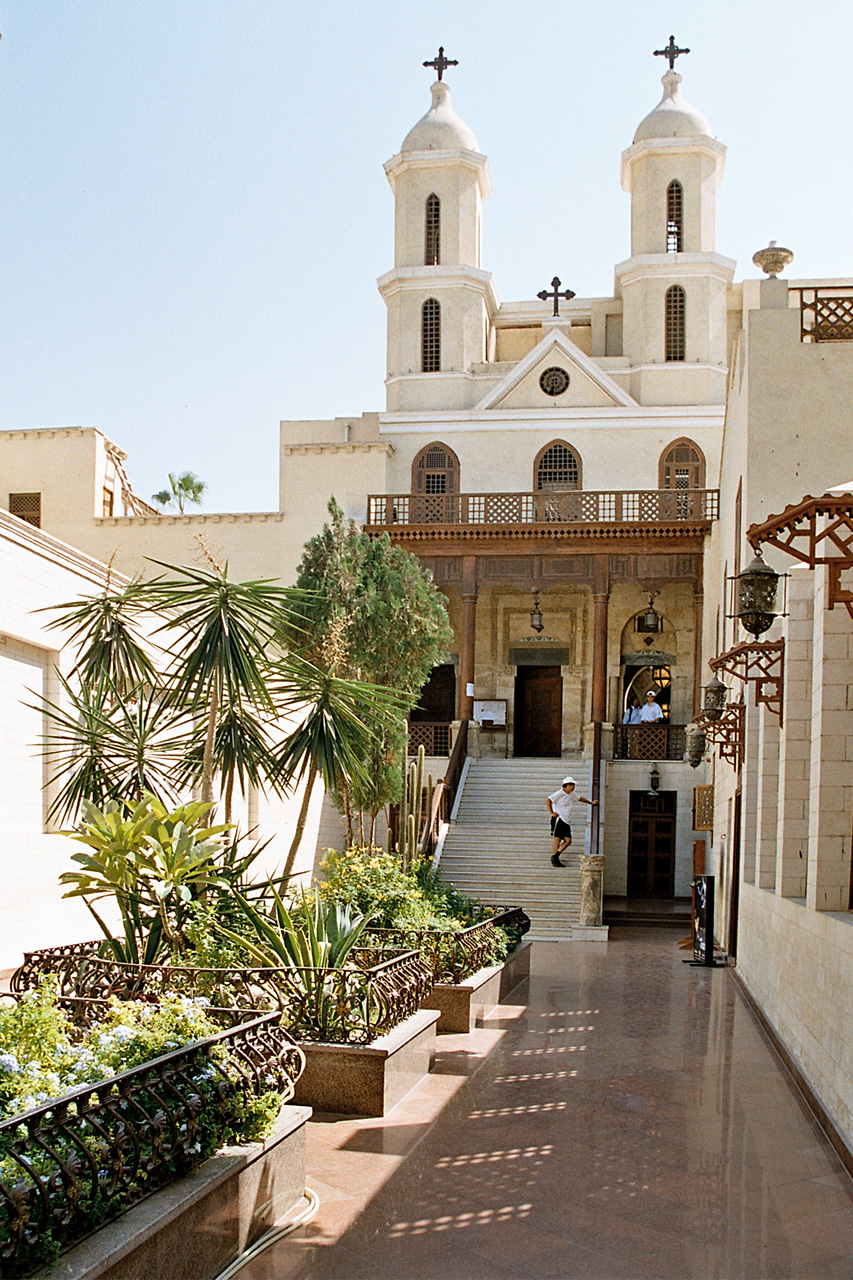 Hanging Church inside Old Cairo, Cairo, Egypt. October 2004.